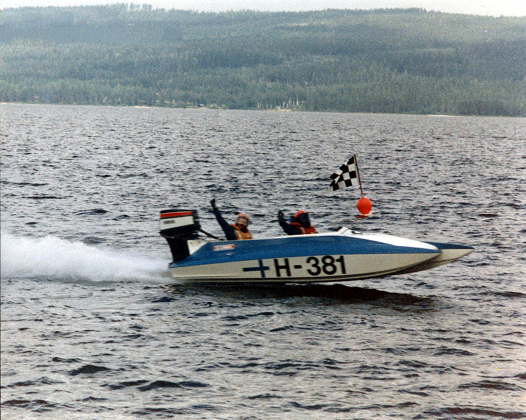 Argo Cat 15 Offshore motorboat